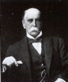 Sir William Osler